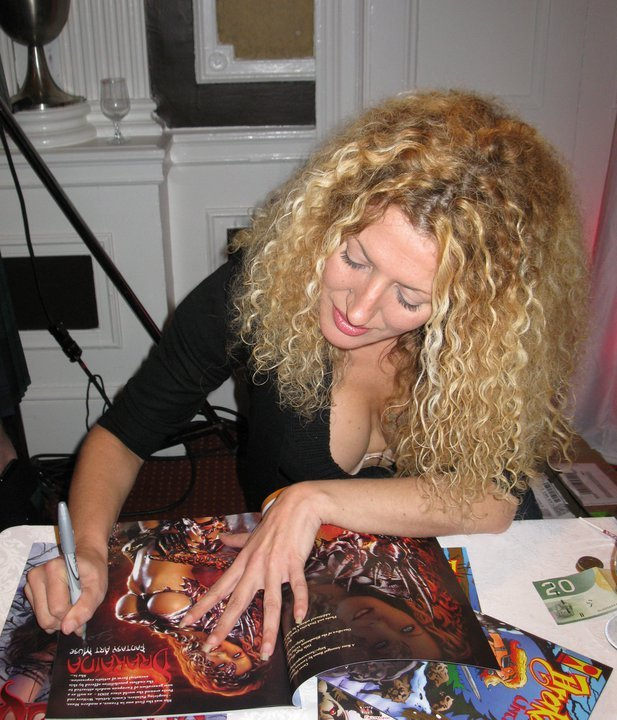 Drakaina signing books during Hal-Con, Canada's best Sci-Fi convention, where she was a guest of honor in October 2010